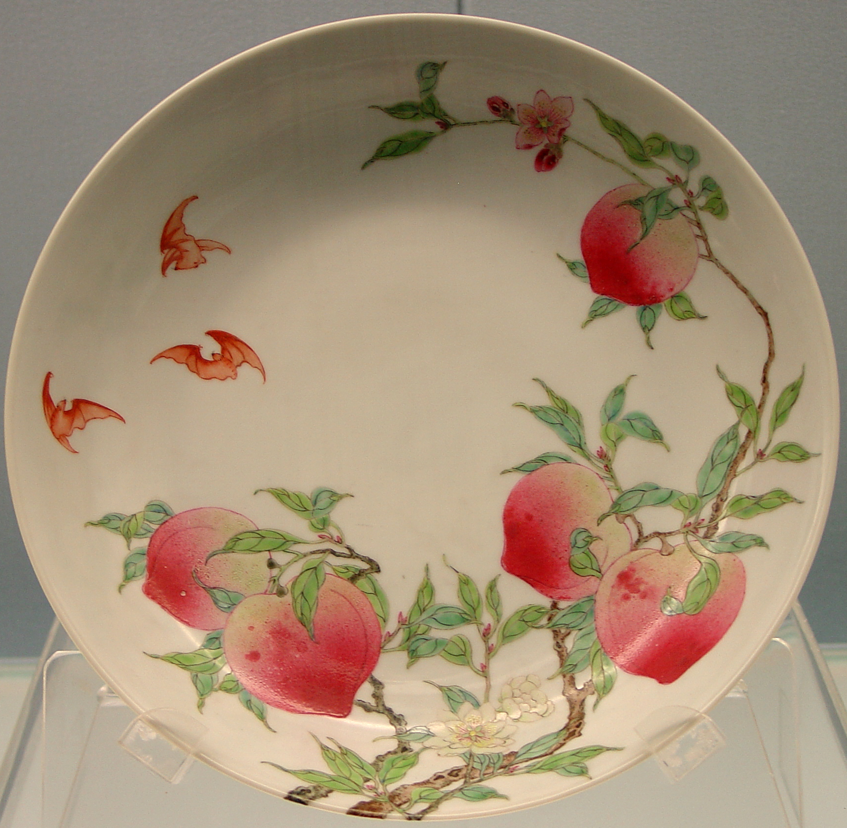 Famille Rose Dish With Peaches And Bats. Jingdezhen ware. Qing Dynasty, Yongzheng reign (1723 - 1735). Shanghai Museum In China, unlike in the West, the bat was an auspicious symbol. The words for "bat" and "happiness" are pronounced the same ("fu") in Chinese, so bats appear on Chinese porcelains as a rebus or visual pun suggesting wishes for happiness. Since peaches symbolize long life, the peaches and bats together on this plate mean a wish for "happiness and long life."